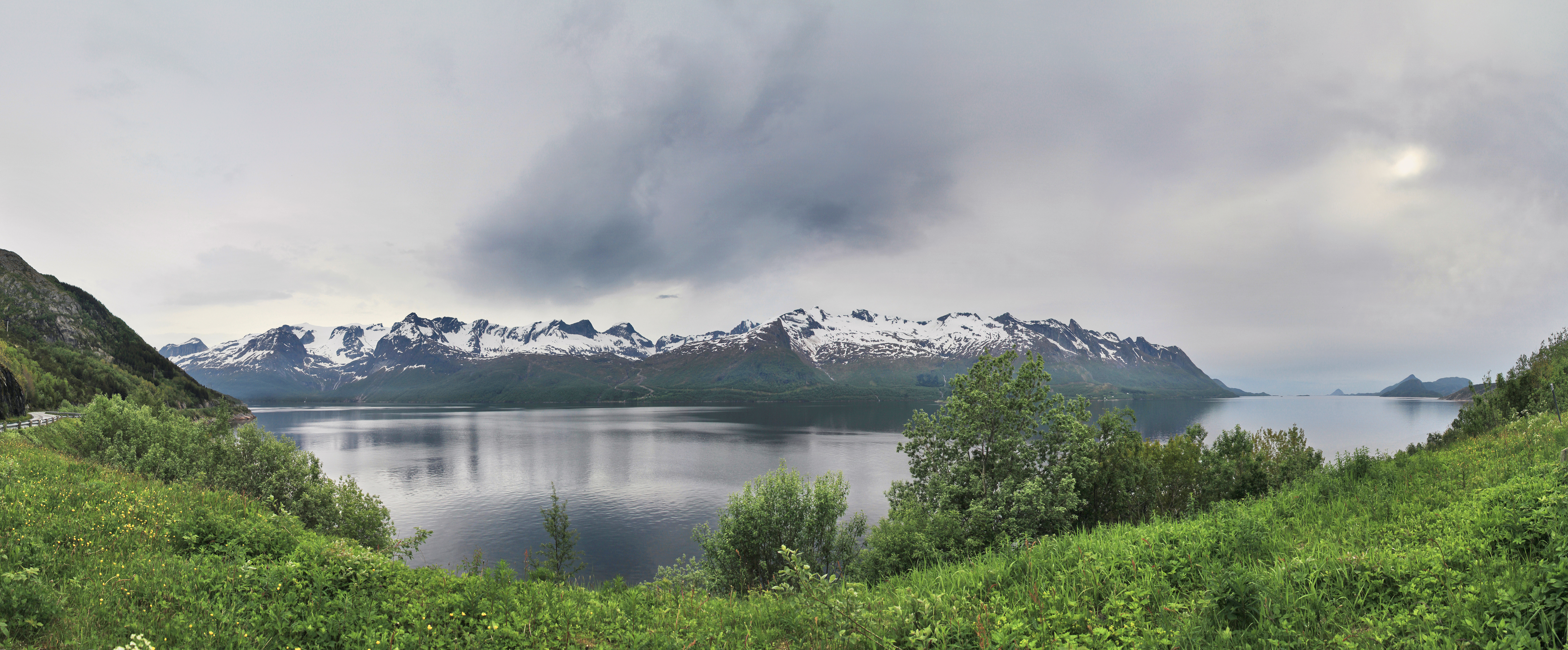 A wide view over Glomfjorden, Nordland, Norway in 2011 June.